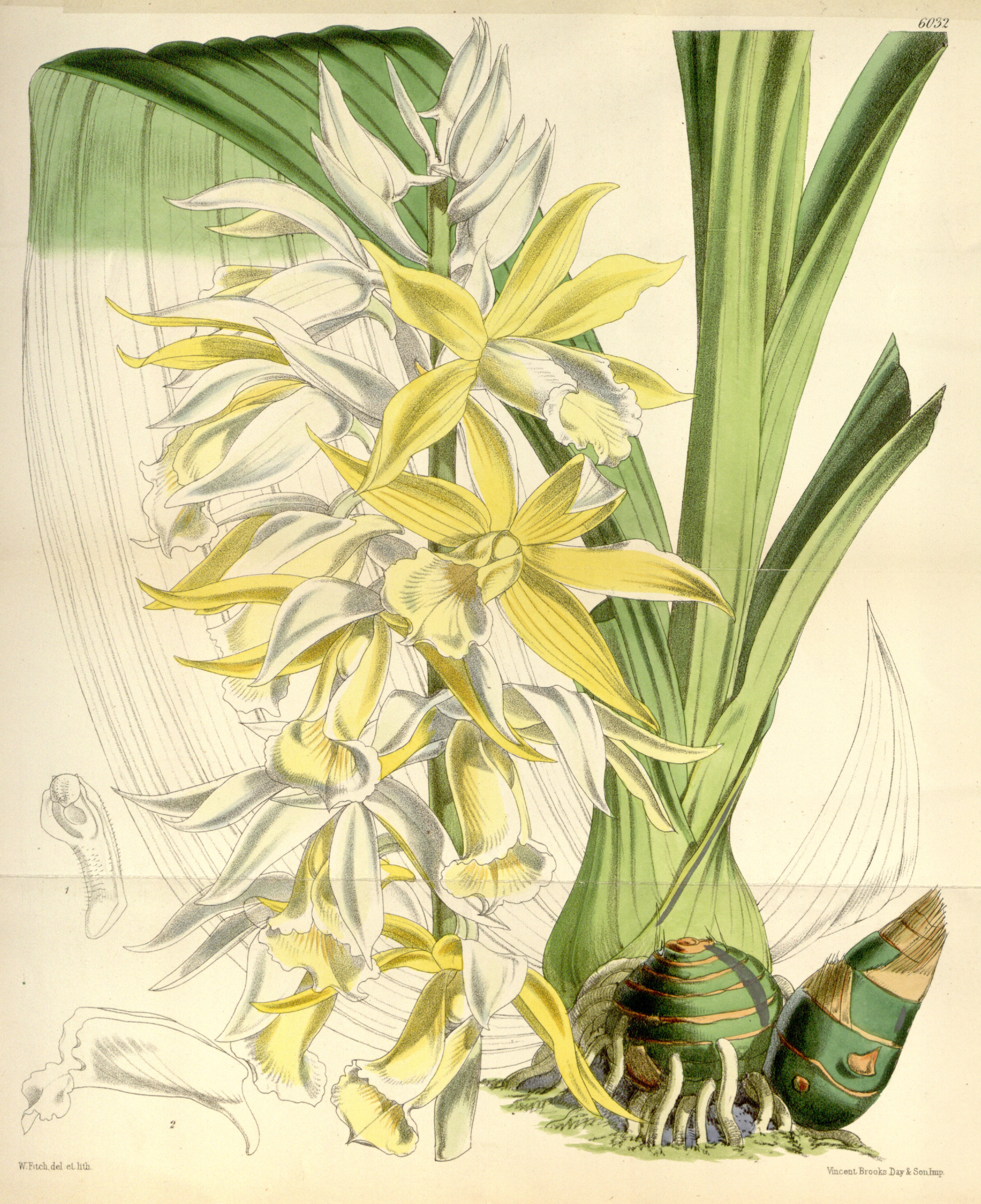 Illustration of Phaius australis var. bernaysii (as syn. Phaius blumei var. bernaysii, spelled by Hooker as Phajus blumei var. Bernaysii)